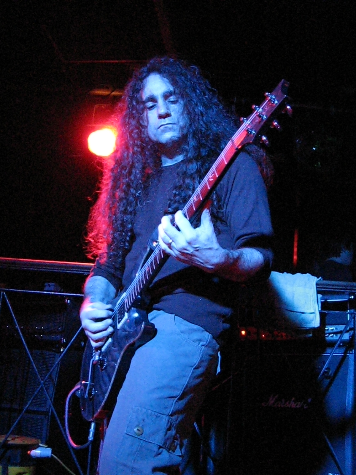 Jim Matheos from Fates Warning at The Underworld in Camden, 2007-11-21.